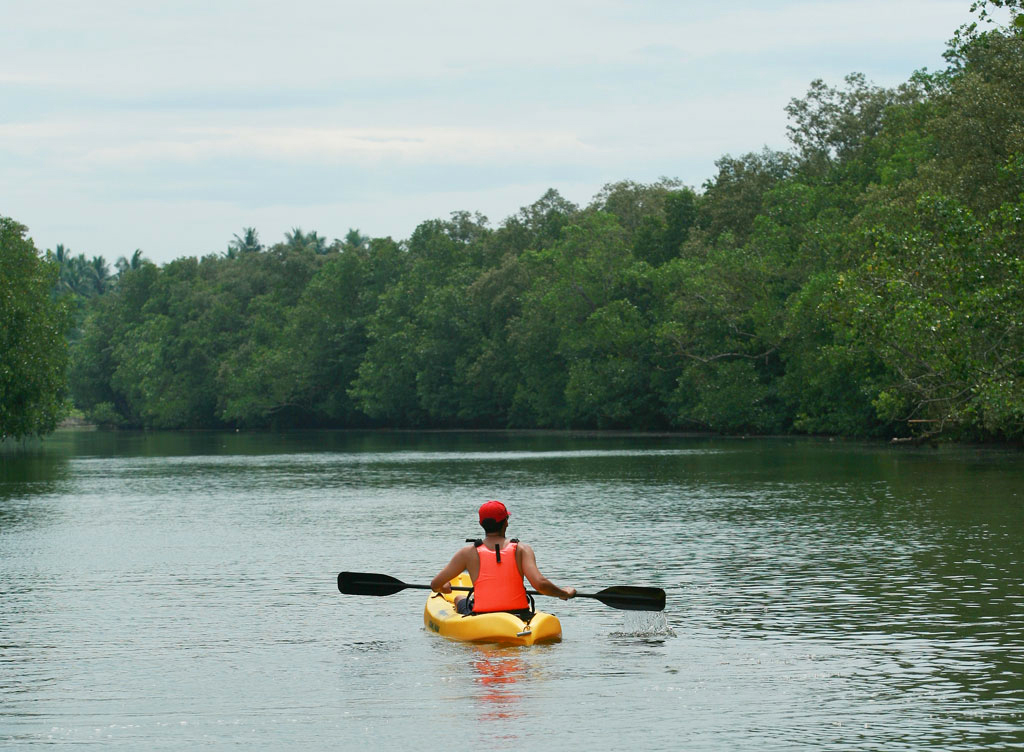 Madaum River, Tagum City.